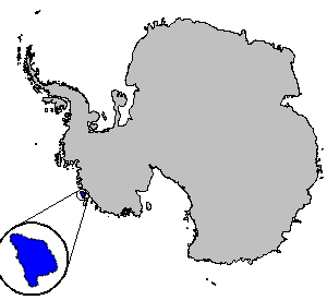 Carney Island in relation to Antarctica. Created and uploaded by Keith Edkins